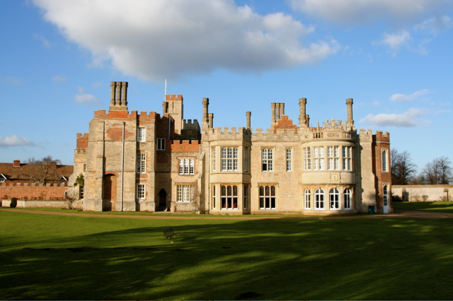 Hinchingbrooke House, Huntingdon Now a conference centre and part of a school, Hinchingbrooke was originally a 12th century nunnery, then the home of the Montagues, Earls of Sandwich.